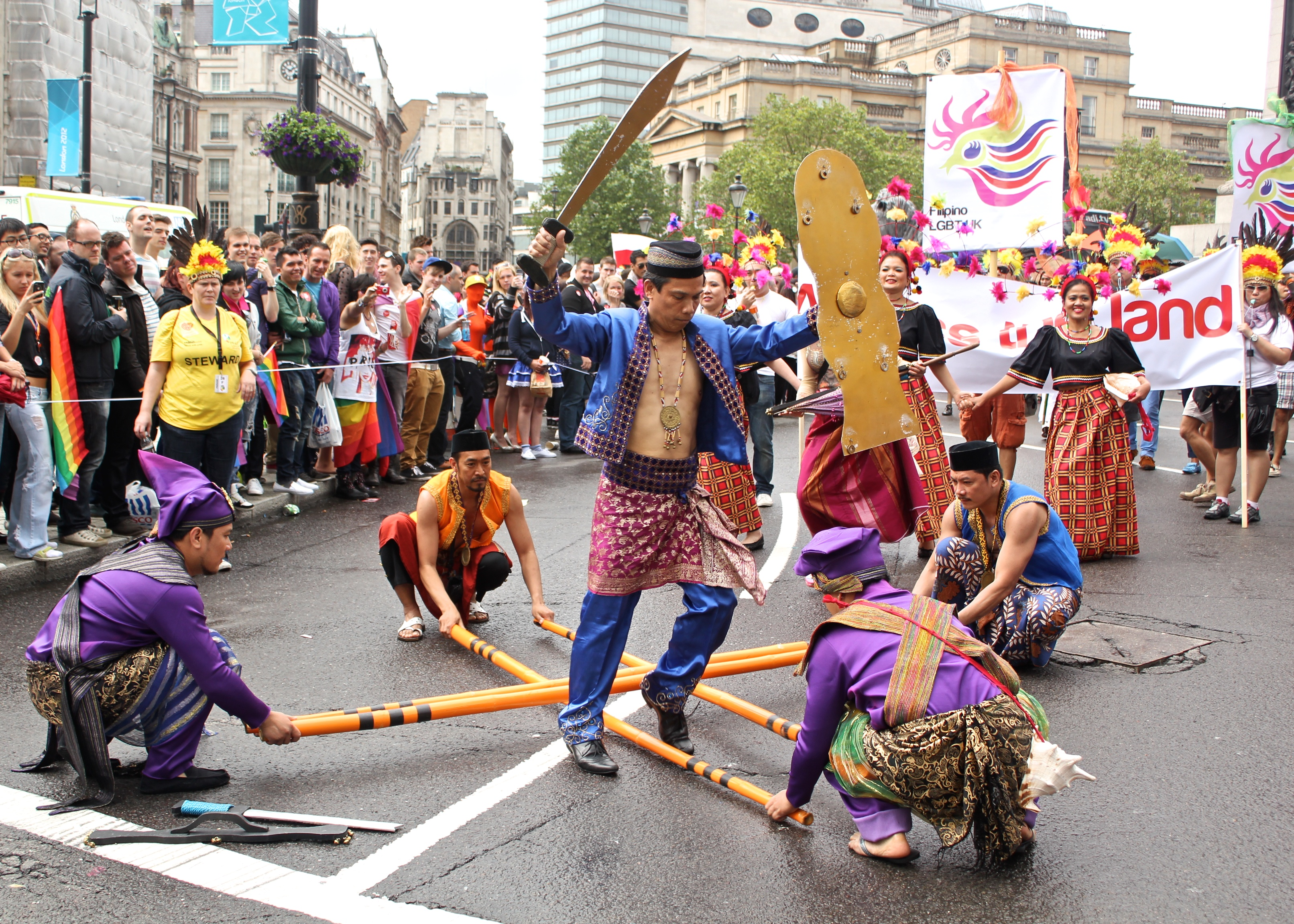 7 July 2012, Saturday